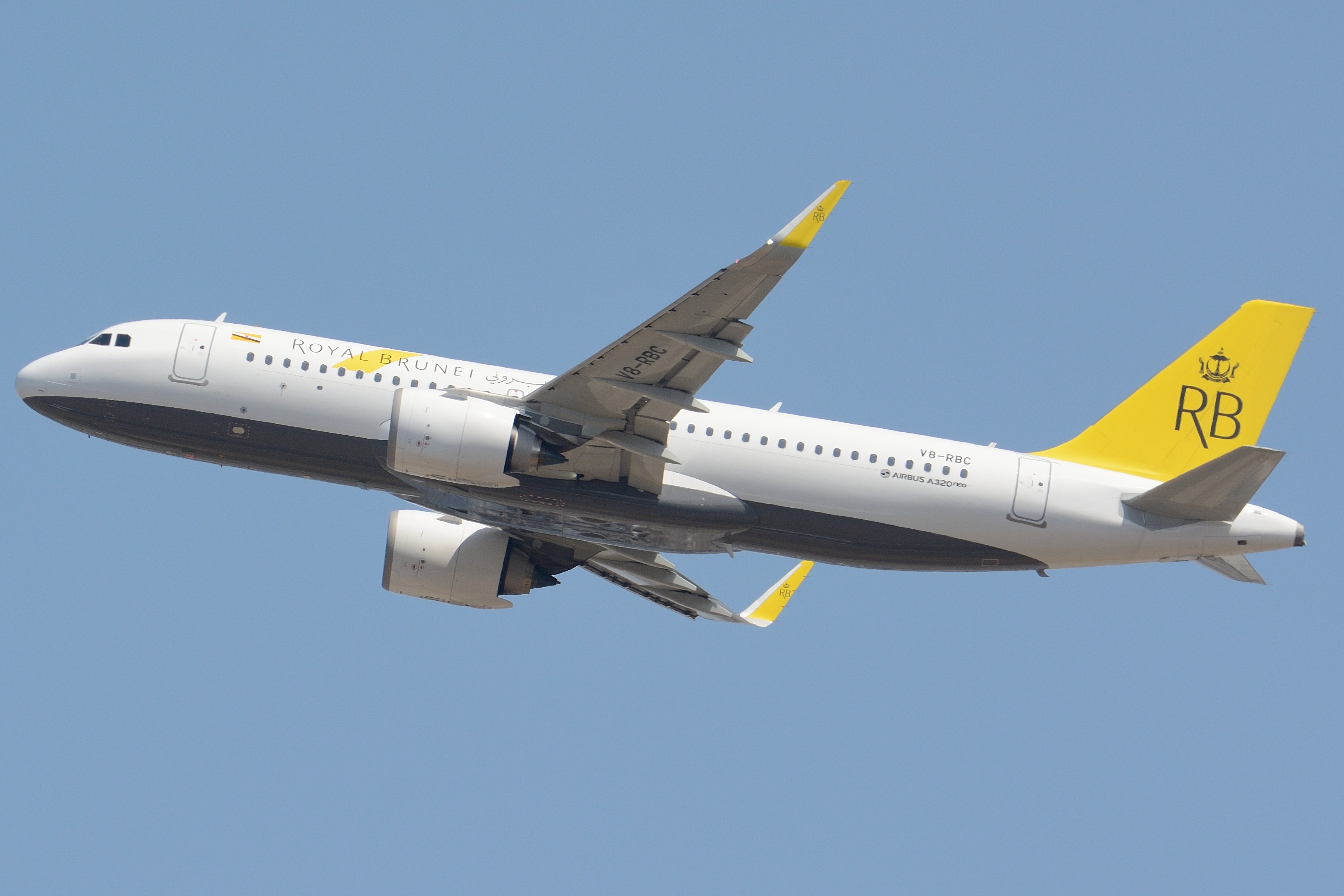 Royal Bruney Airlines, Airbus A320-200neo V8-RBC NRT